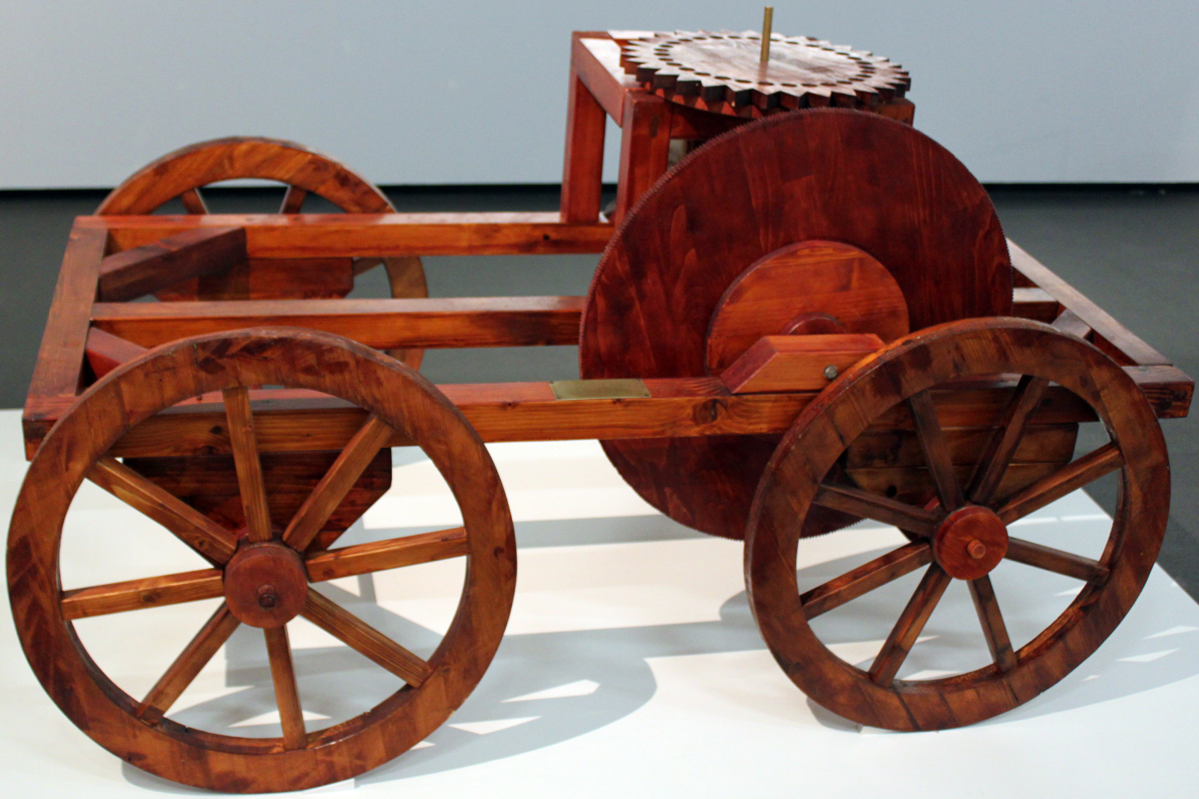 Replica of a Roman distance measuring car (odometer). Special exhibition "Beyond the Horizon - Space and Knowledge in the Old World cultures" at the Pergamon Museum (22.06 -. 30.09.2012)